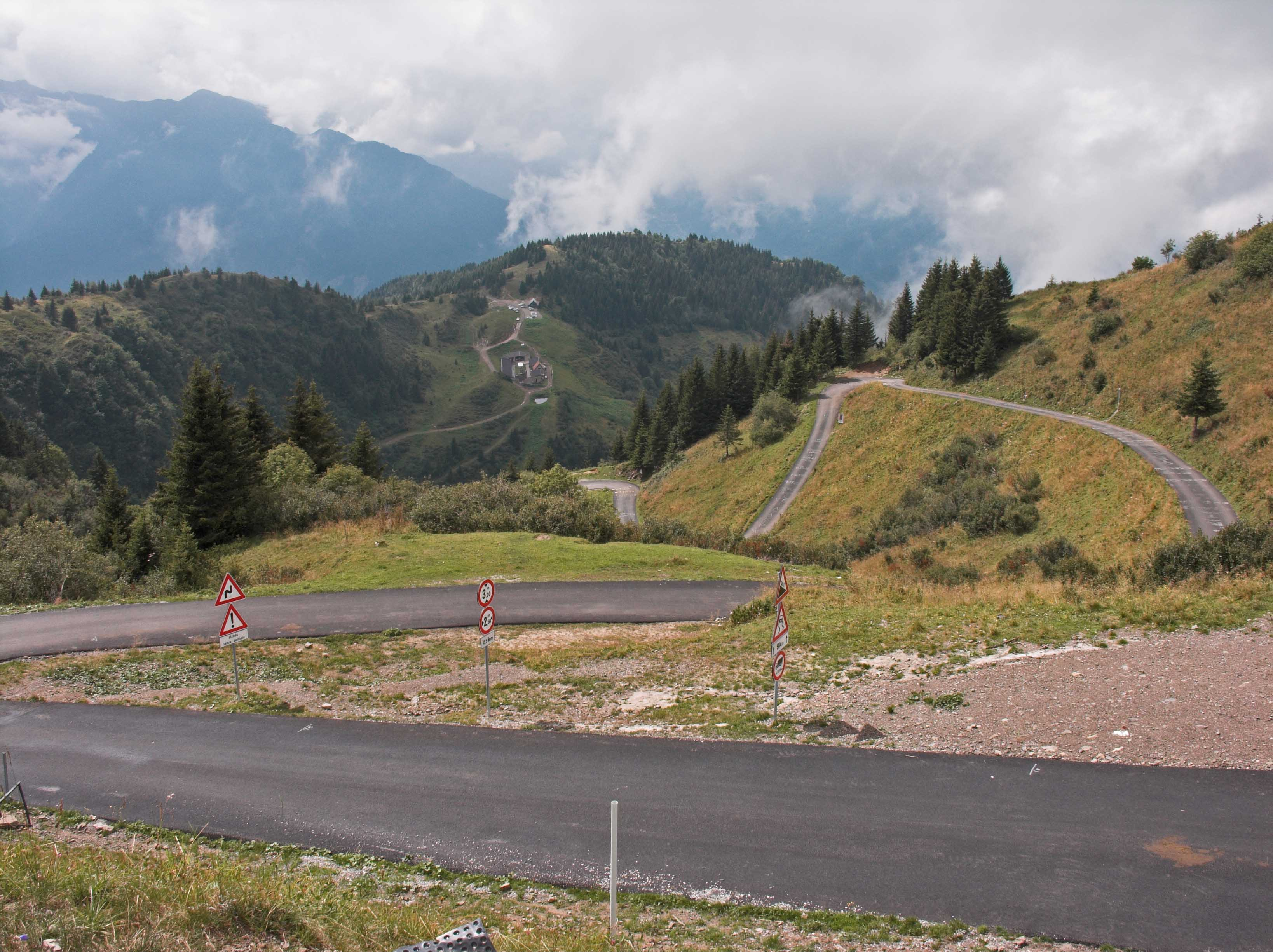 Monte Zoncolan is a mountain in the Carnic Alps, located in the region of Friuli-Venezia Giulia, Italy.